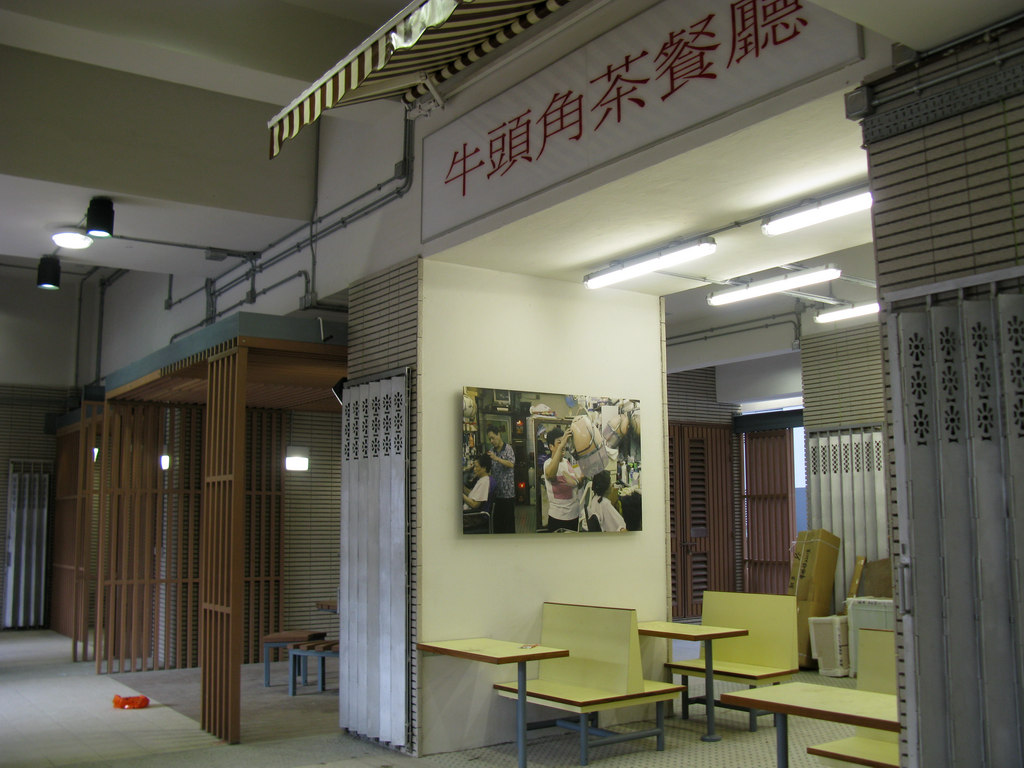 "Ngau Tau Kok Chinese Tea Restaurant" at Heritage Gallery, Upper Ngau Tau Kok Estate